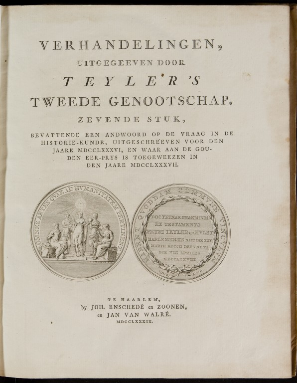 Verhandelingen van Teylers Tweede Genootschap (The Proceedings of Teylers Second Society), title page. Collection Teylers Museum, Haarlem, The Netherlands.